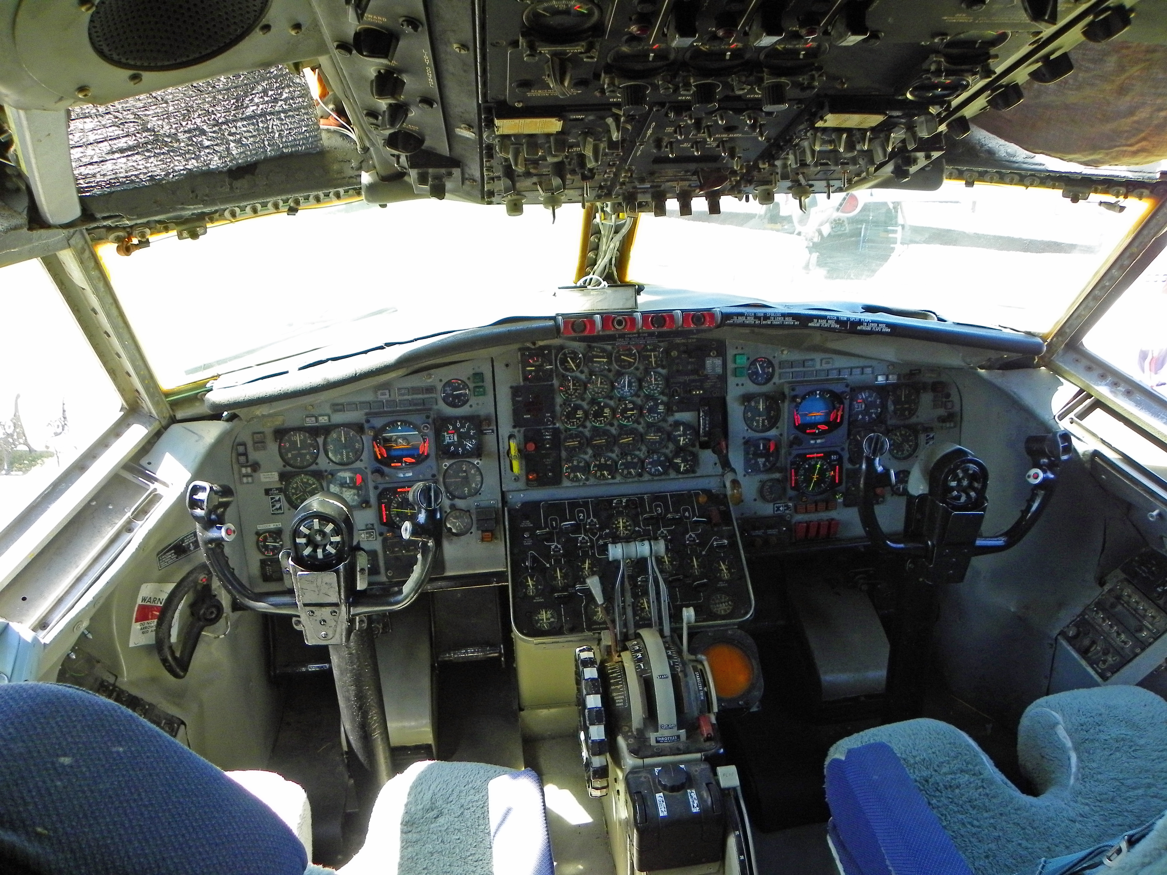 Cockpit of a KC-135A Stratotanker at the Castle Air Museum in Atwater, California.